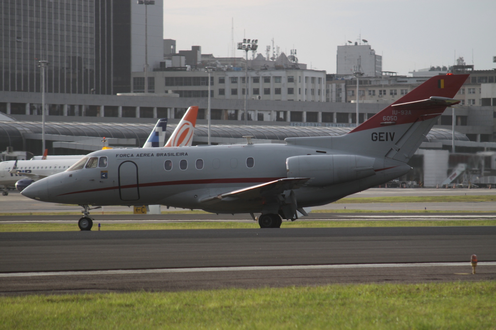 At Santos Dumont